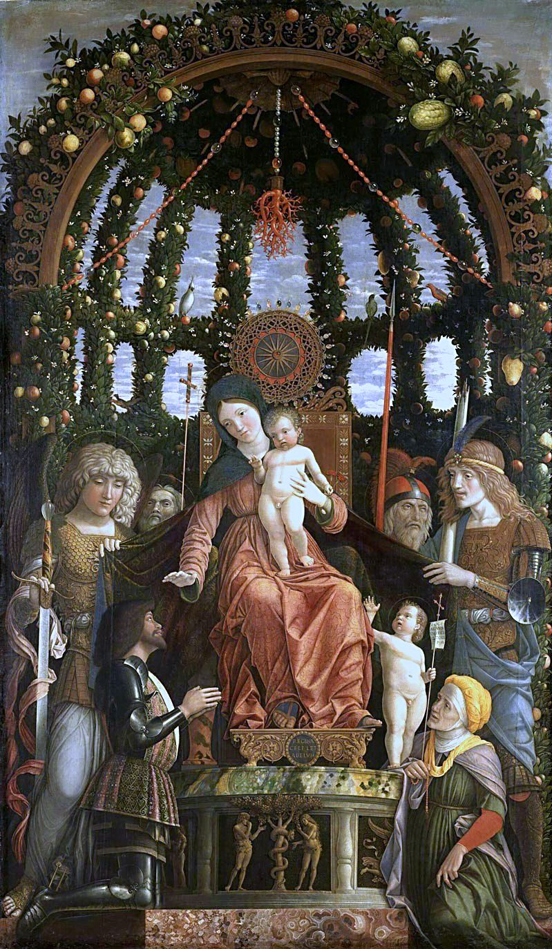 without frame